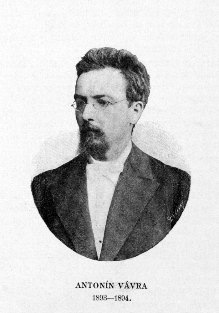 Antonín Vávra (1848-1928) was a Czech mechanical engineer.